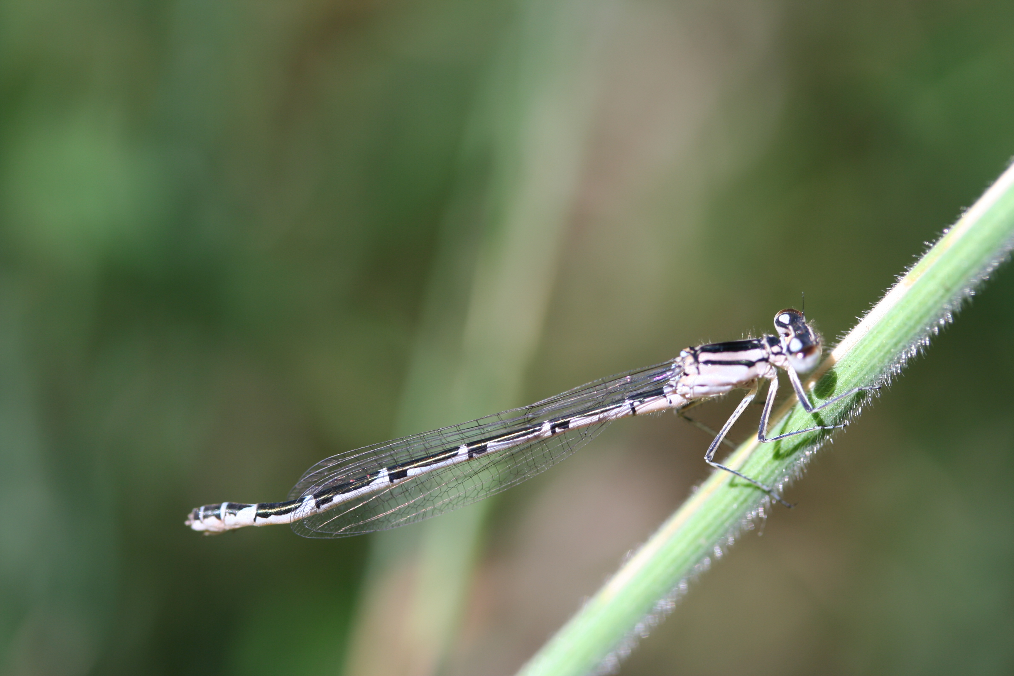 Enallagma cyathigerum 16 July 2006 IJmuiden, the Netherlands